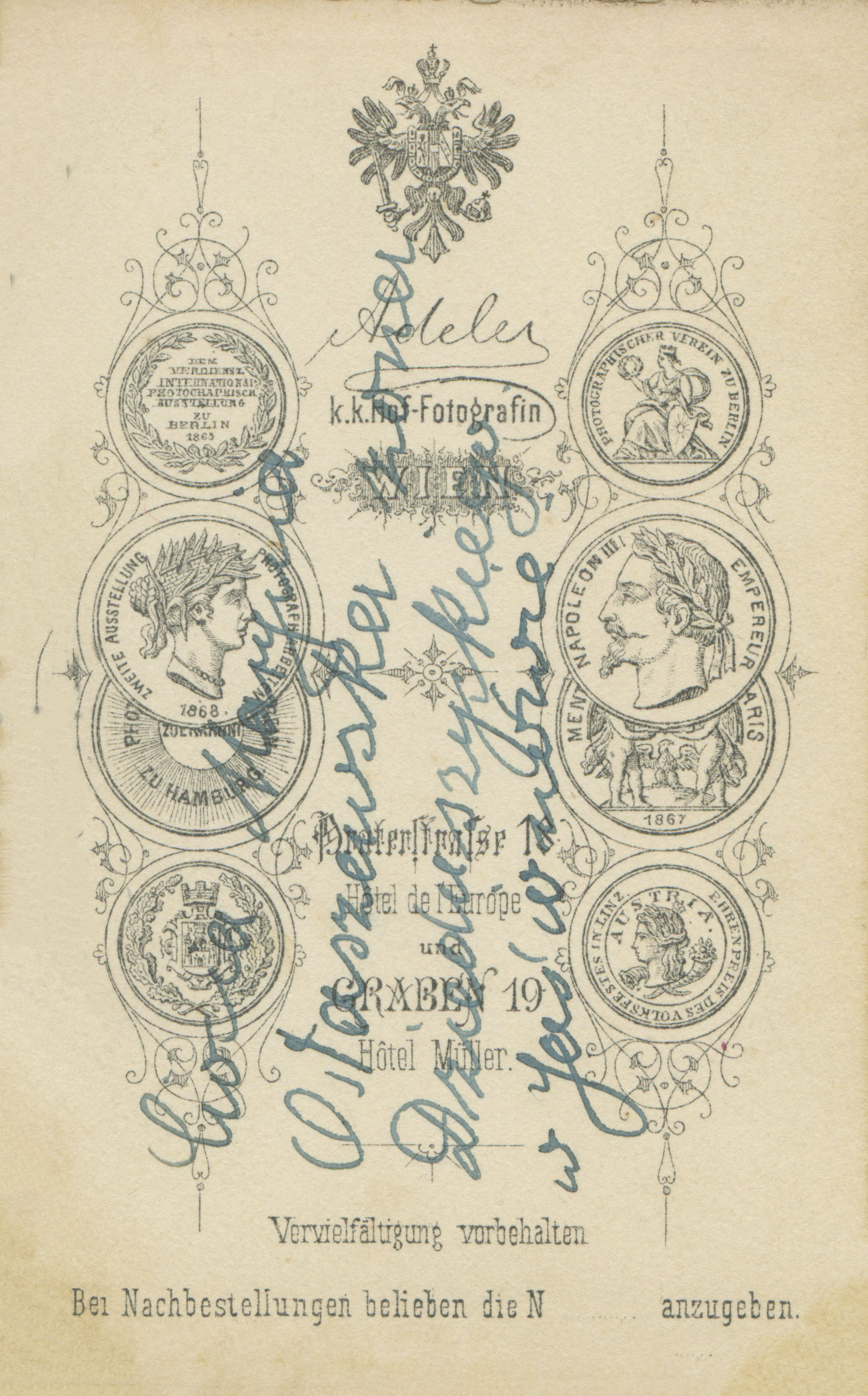 Back of a photo from 1870 picturing a 19 years old Maria Ostaszewska (1851-1918) [daughter of Teofil Wojciech Ostaszewski and Emma countess Załuska], since 1884 wife of count August Dzieduszycki. Photography of 1870 by Adele k.k. Hof-Fotografin, Wien, Praterstrasse 18, Hotel de L` Europe, Graben 19, Hotel Müller [Adele Perlmutter-Heilpern]. Size of the carton: 65 x 105 mm.